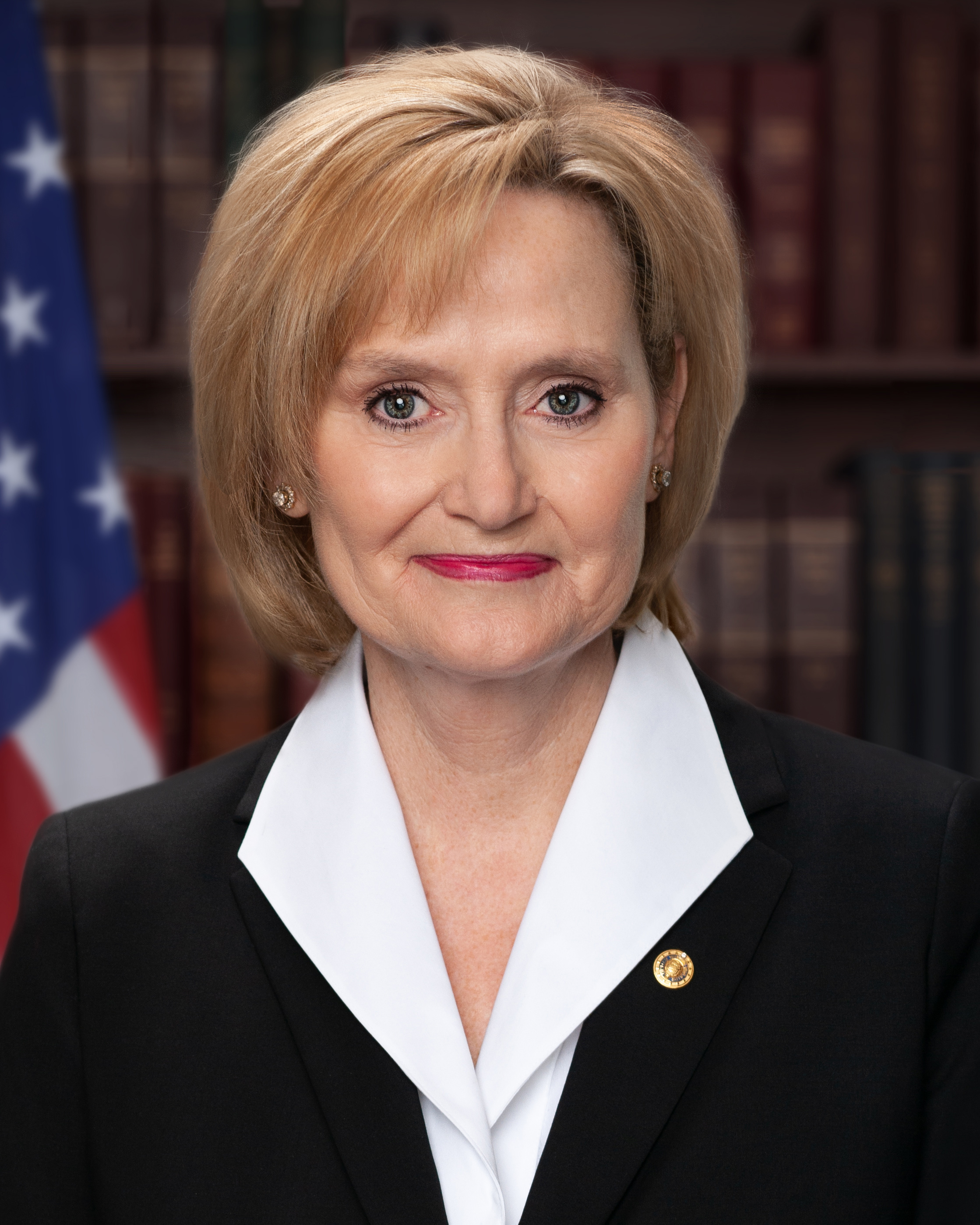 Official senate portrait of Senator Cindy Hyde-Smith (R-MS)